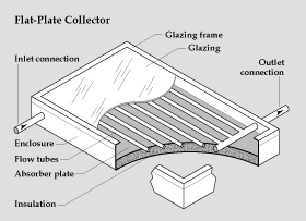 Flat_plate_collector.gif (280 × 203 pixel, file size: 8 KB, MIME type: image/gif) This picture provided as public domain by the US Dept. of Energy